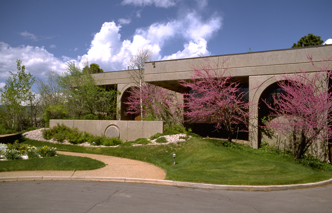 Geological Society of America Building, 3300 Penrose Place, Boulder, Colorado, 80301, USA